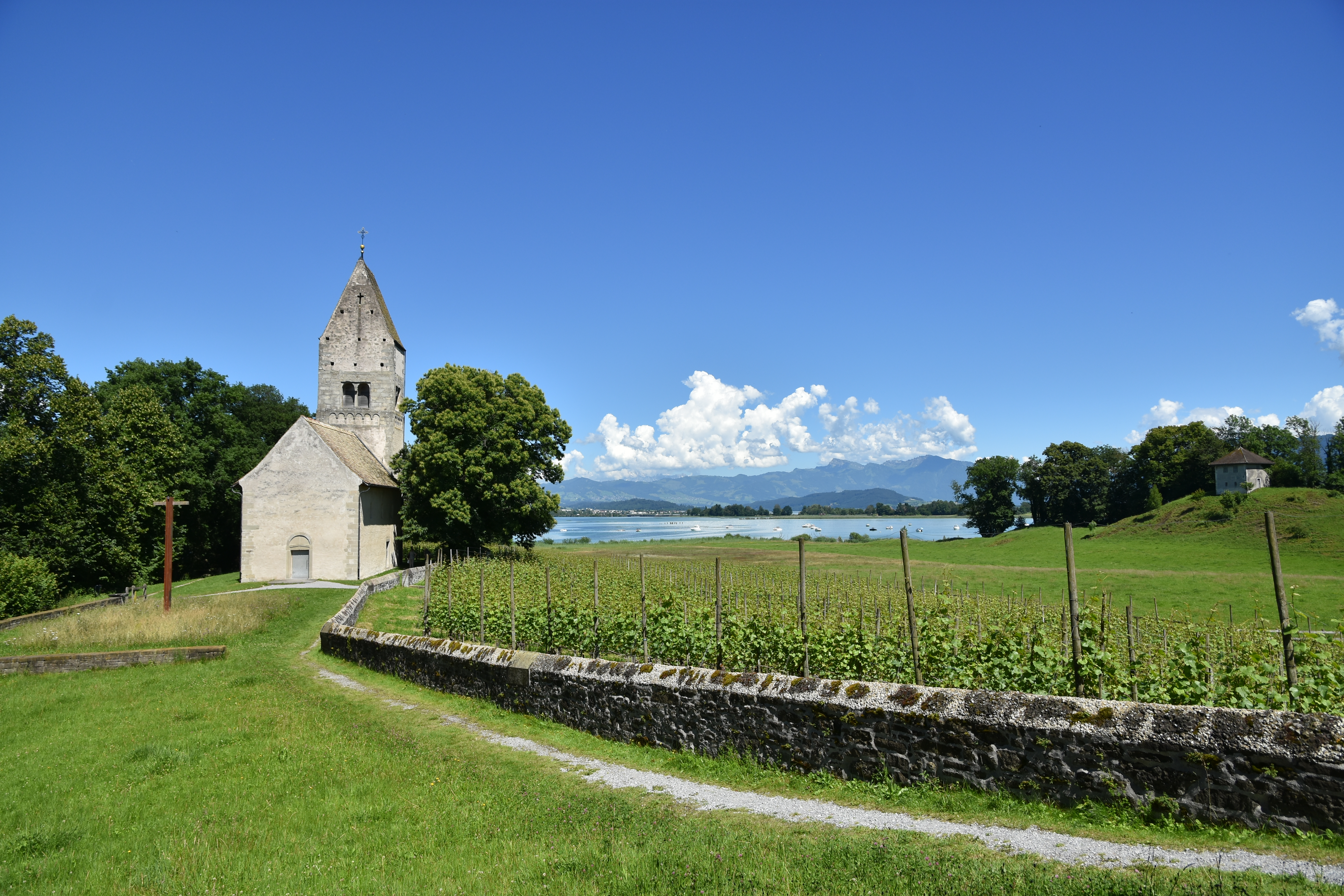 St. Peter und Paul was built in 1142, a former building is first mentioned in 970 A.D. St. Peter und Paul was for centuries a Parish church, situated on the Ufenau island (Zürichsee) in Switzerland, Seedamm and Glarus alps in the background.